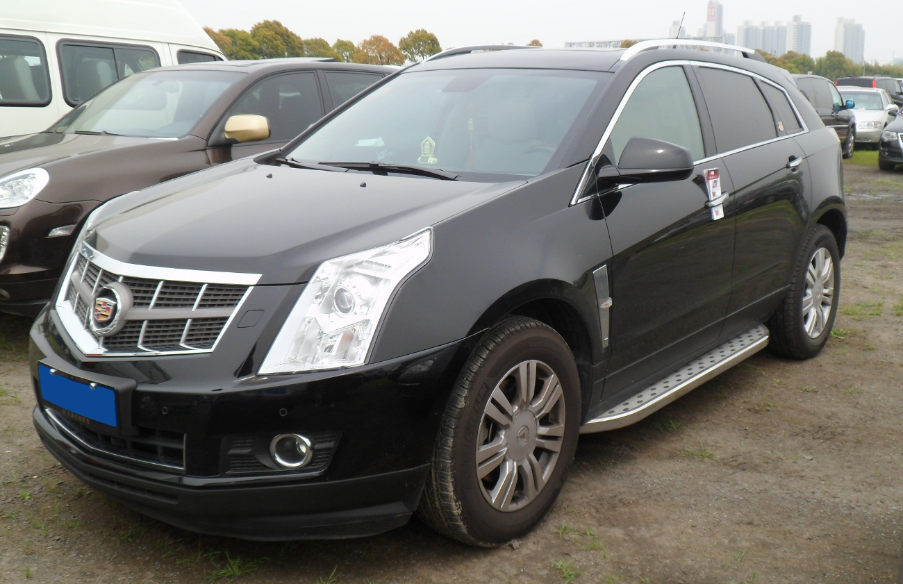 Cadillac SRX II photographed in Anting, Shanghai municipality, China.